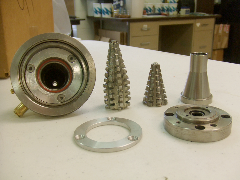 Photograph of low pressure mix head components, including mix chambers, conical mixers, and mounting plates. The conical mixer is placed on a drive shaft and is enclosed by the mix chamber. The two components are metered into the mix chamber and are mixed together at speeds of up to 8,000 rpm.